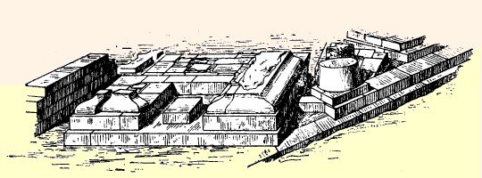 Shows the site of the excavated Lapis Niger in the Roman Forum